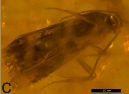 Electresia zalesskii Kusnezov, 1941. PIRAS (HT: no. 20). c. Ventral view. Length of forewing 4.2 mm.